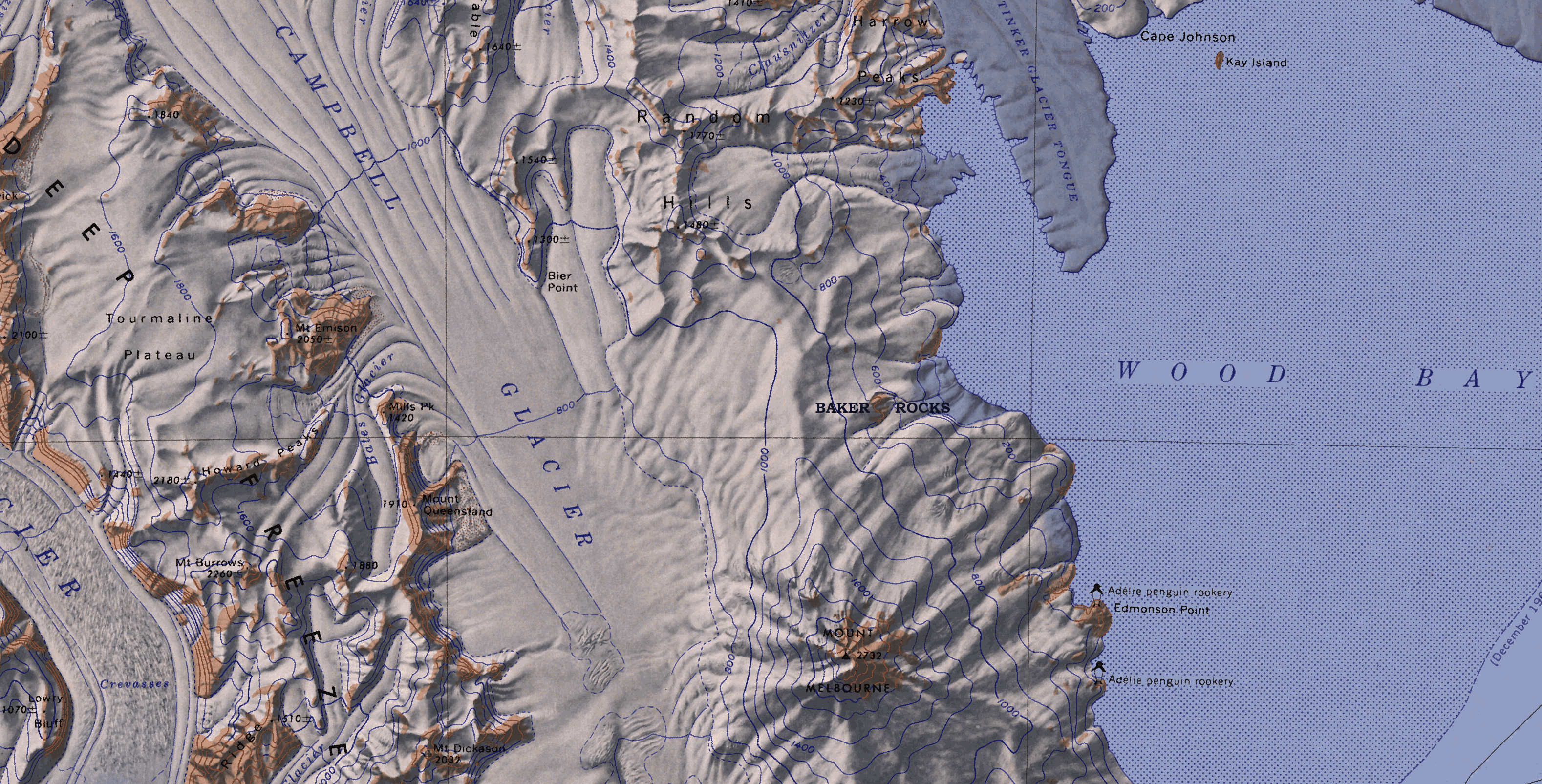 Topographic map of Mount Melbourne (1:250,000 scale). USGS Atlas of Antarctic Research